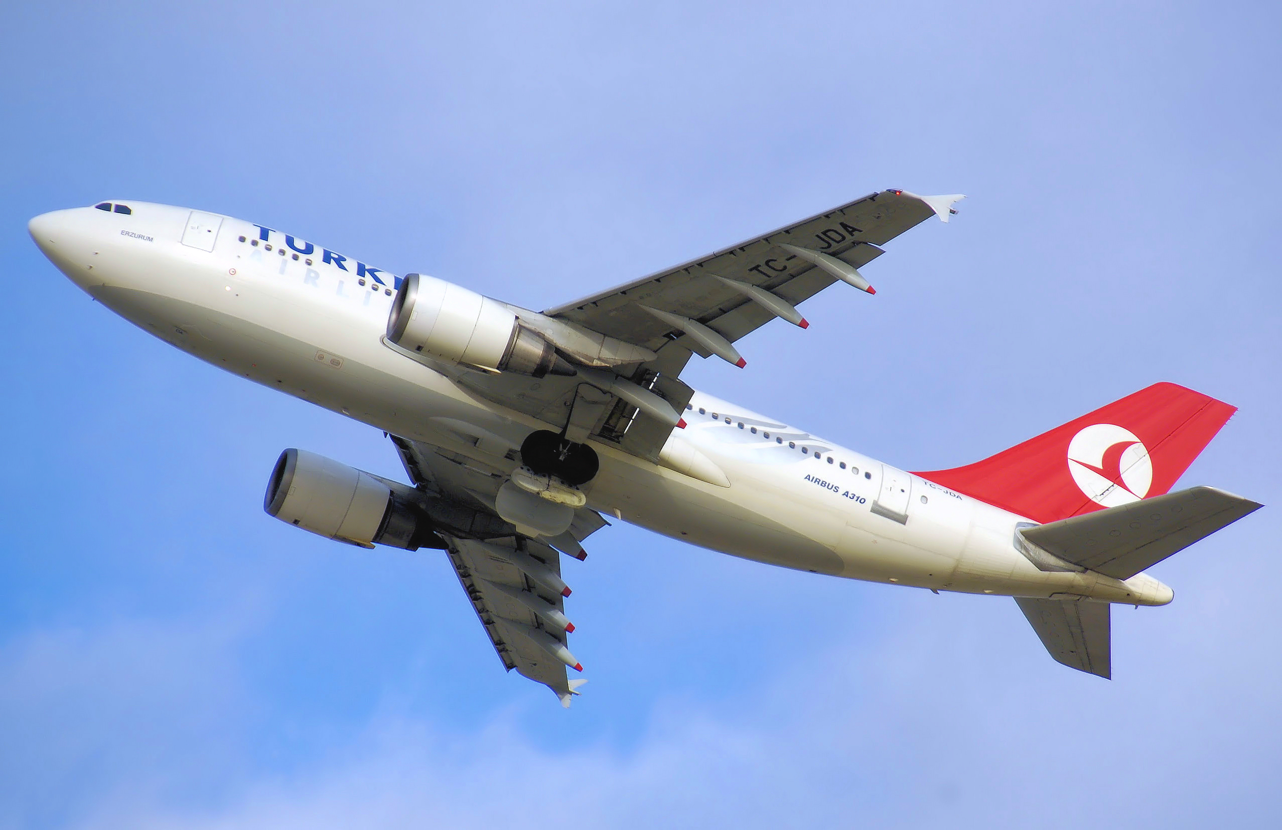 Turkish Airlines Airbus A310-300 (TC-JDA) taking off from London Heathrow Airport, England.